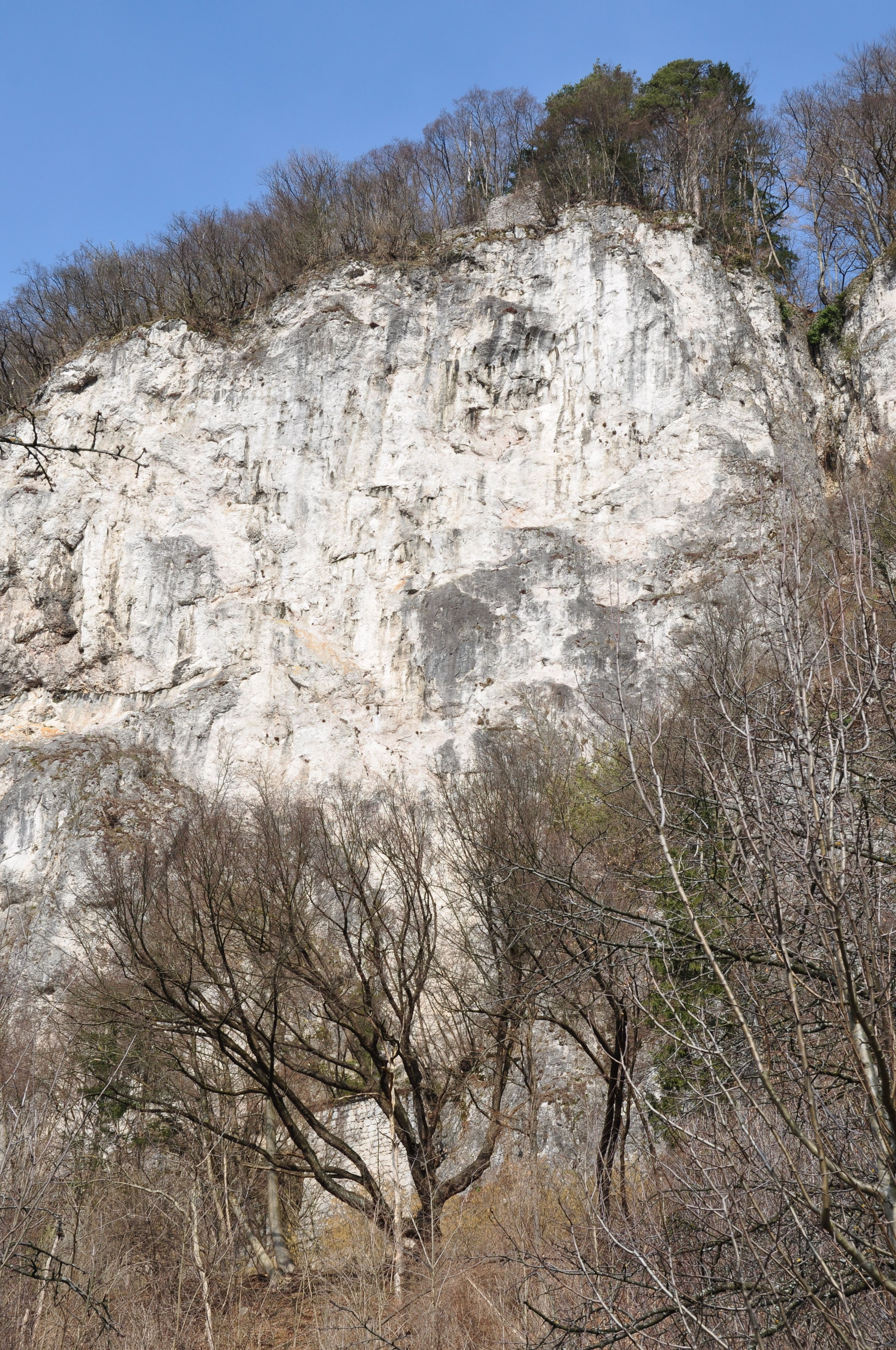 Shot tower in Federaun, municipality Villach, Carinthia, Austria, EU